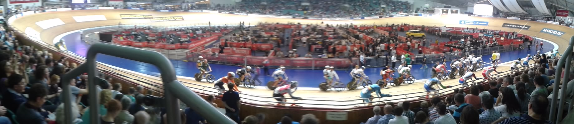 Start of the men's scratch at Round 1 of the the 2012-13 Track Cycling World Cup in Manchester